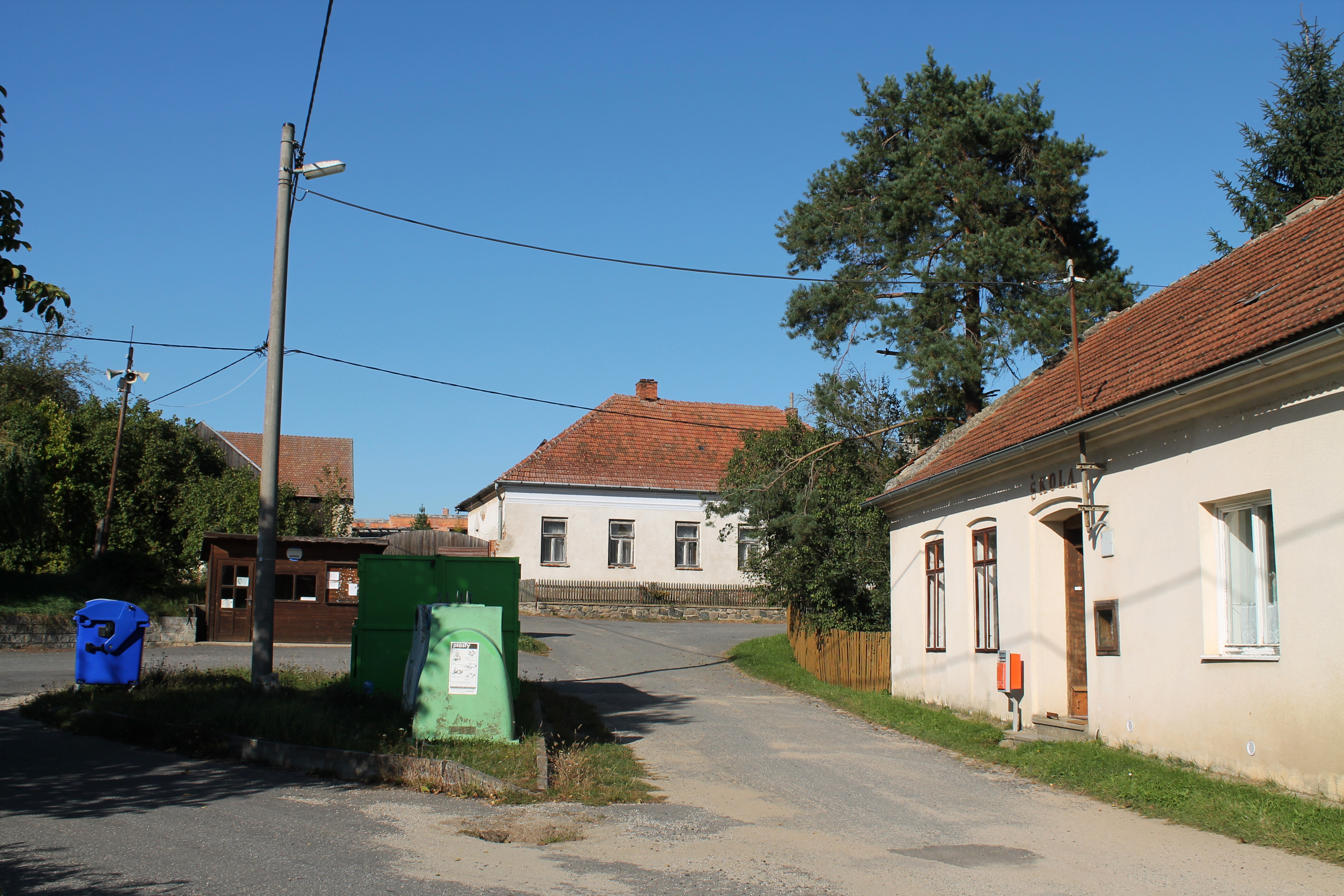 Moravecké Janovice, Strážek, Žďár nad Sázavou District, Czech Republic